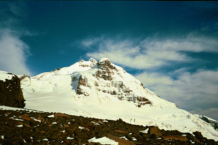 personal photograph of Tronador mountain